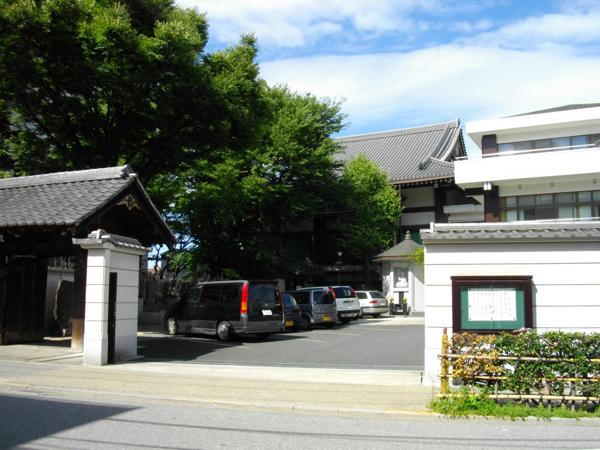 Jokan-ji